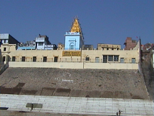 See Varanasi Development Cooperation Handbook/Stories/Responsible Development - Varanasi The Varanasi Heritage Dossier Kautilya Society Mediendatei abspielen Vrinda Dar - How we got involved in heritage protection of Varanasi